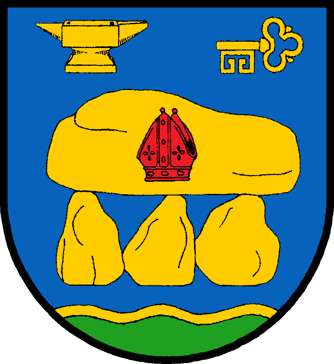 Coat of arms of the municipality Sieverstedt in Schleswig-Holstein, Germany.